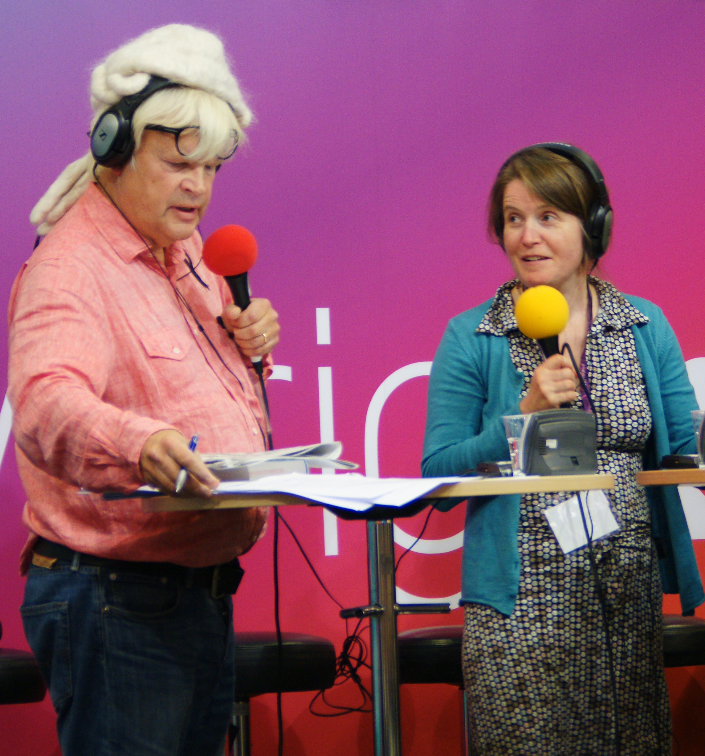 Swedish radio presenters Thomas Nordegren and Louise Epstein at Göteborg Book Fair 2016.